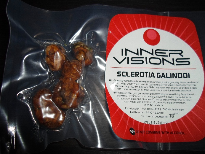 Sclerotia made of Psilocybe galindoi for entheogenic purposes.